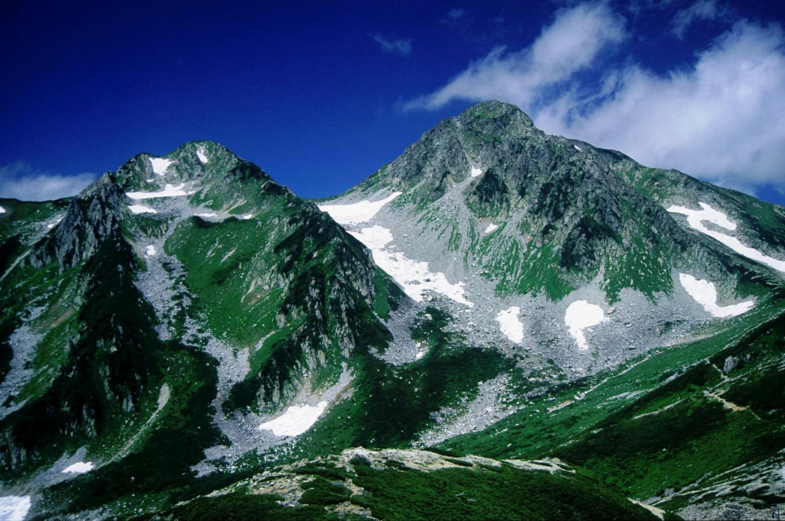 Mount_Oni_and_Mount_Ryuō_1995-08-20